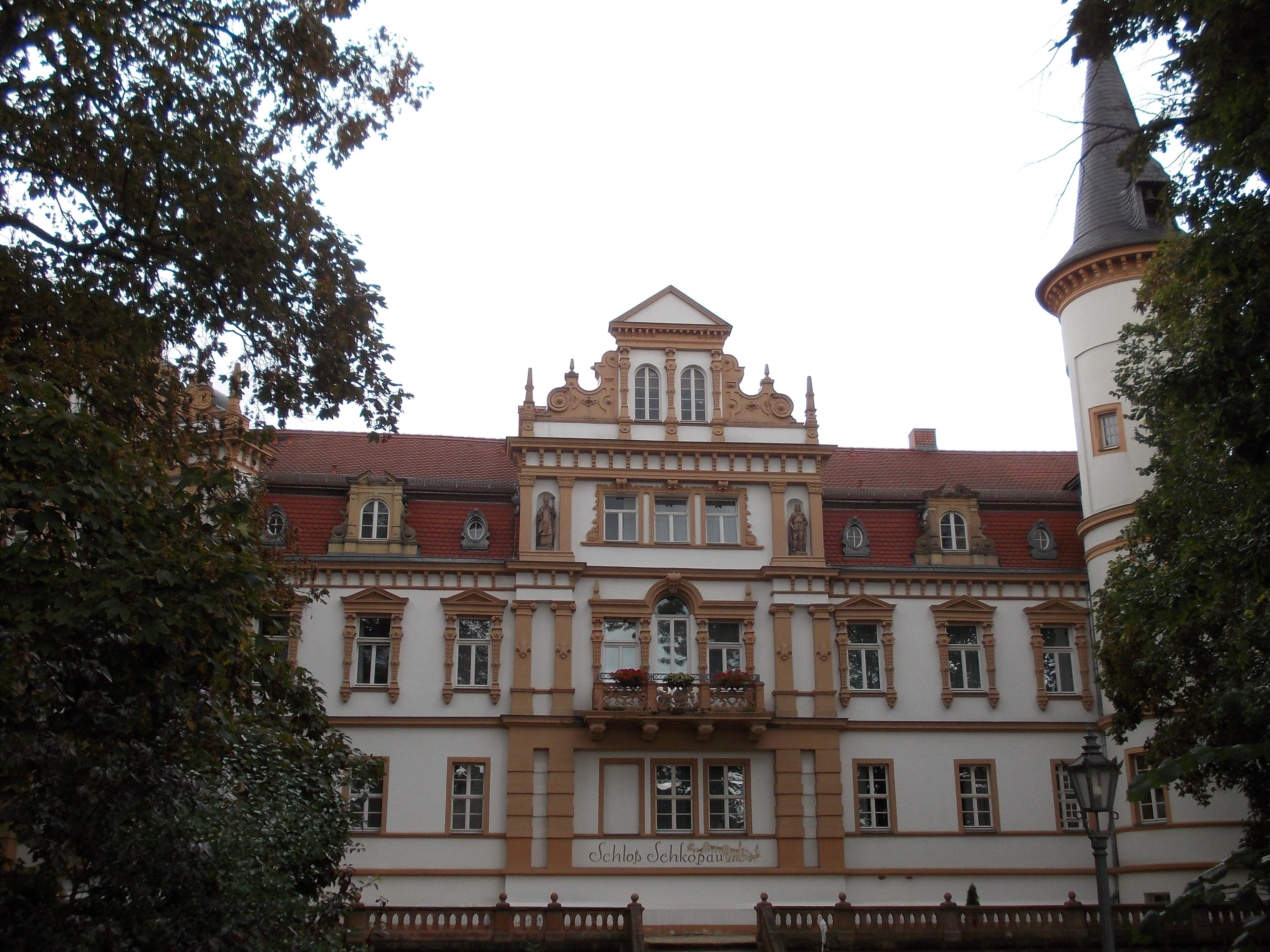 Schkopau castle (district: Saalekreis, Saxony-Anhalt)